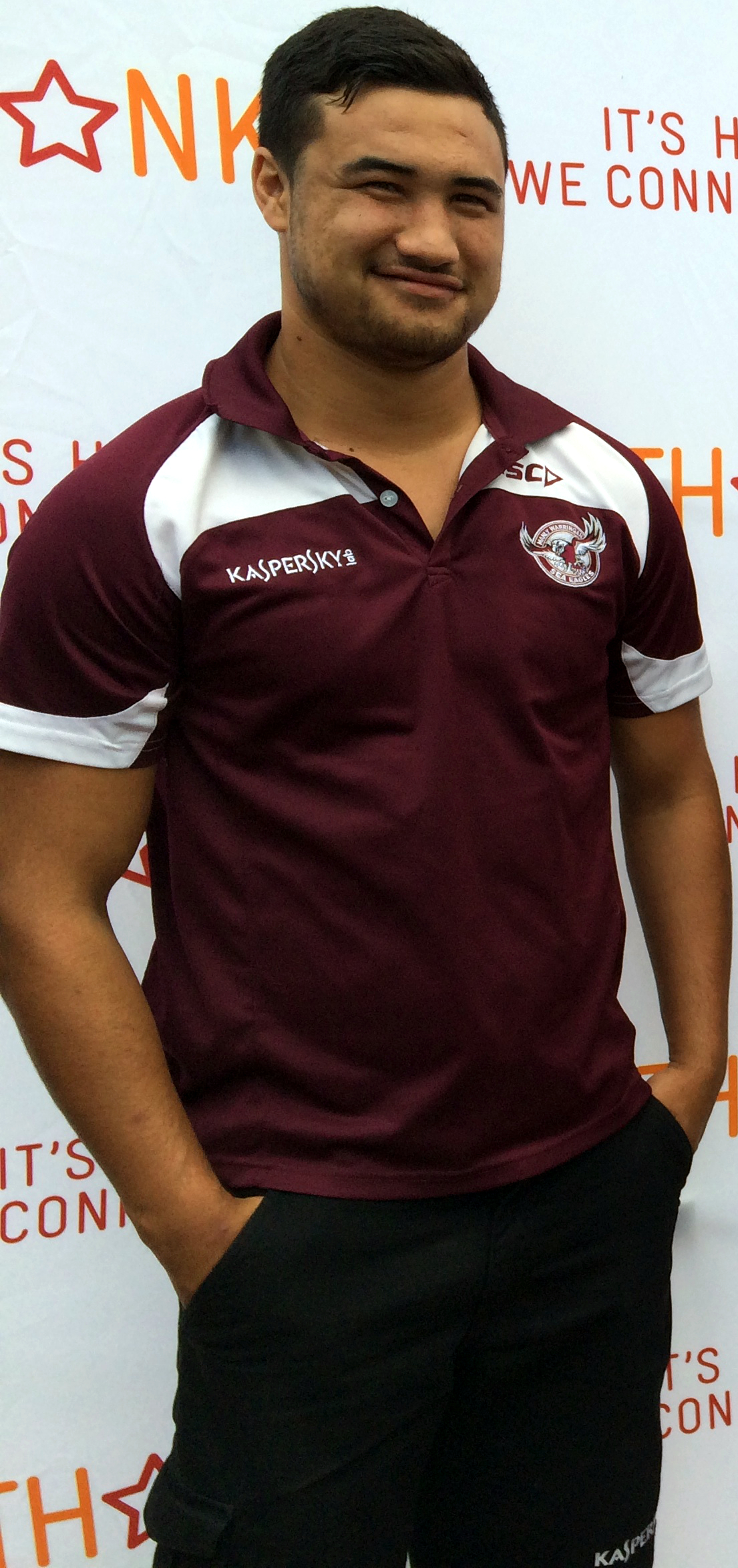 Peta Hiku